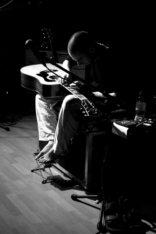 Erik Mongrain to the Cassiopeia Theater in Stuttgart, Germany